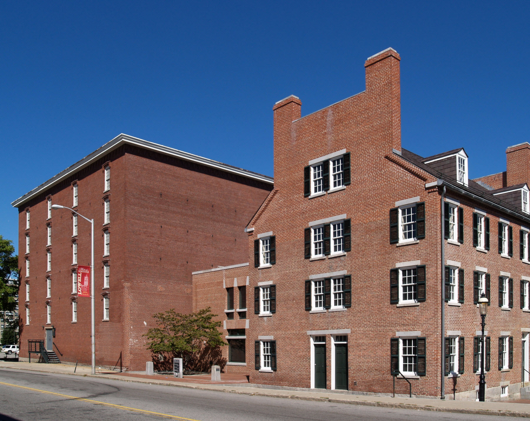 Boott Mills boardinghouse and storehouse, now restored and part of Lowell National Historic Park. Lowell, Massachusetts